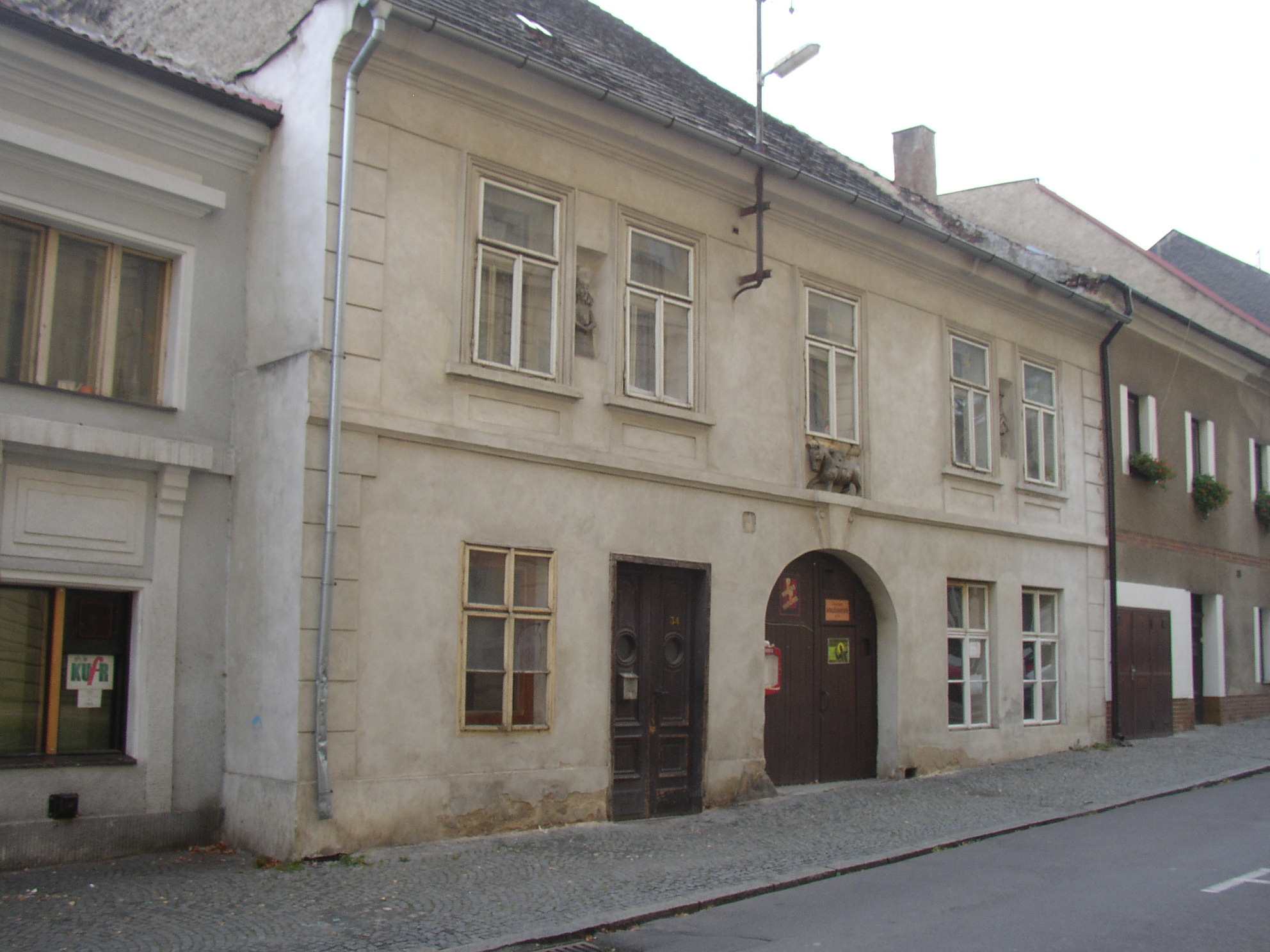 House No 34 "Maňasovský", Štechova Str., in Slaný, Kladno District, Central Bohemian Region, Czech Republic. View from NE.